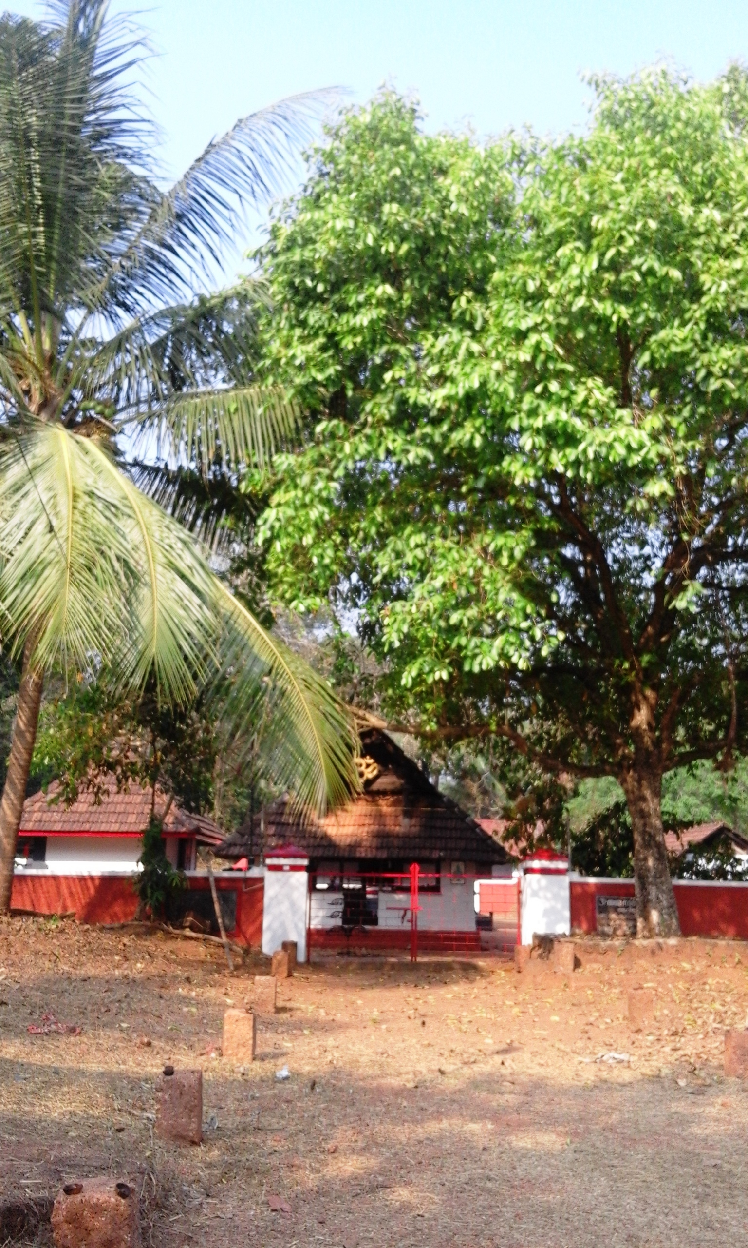 Peruvayal Village, Mavoor, Kozhikode District, Kerala province, India.